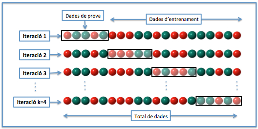 K-fold cross validation